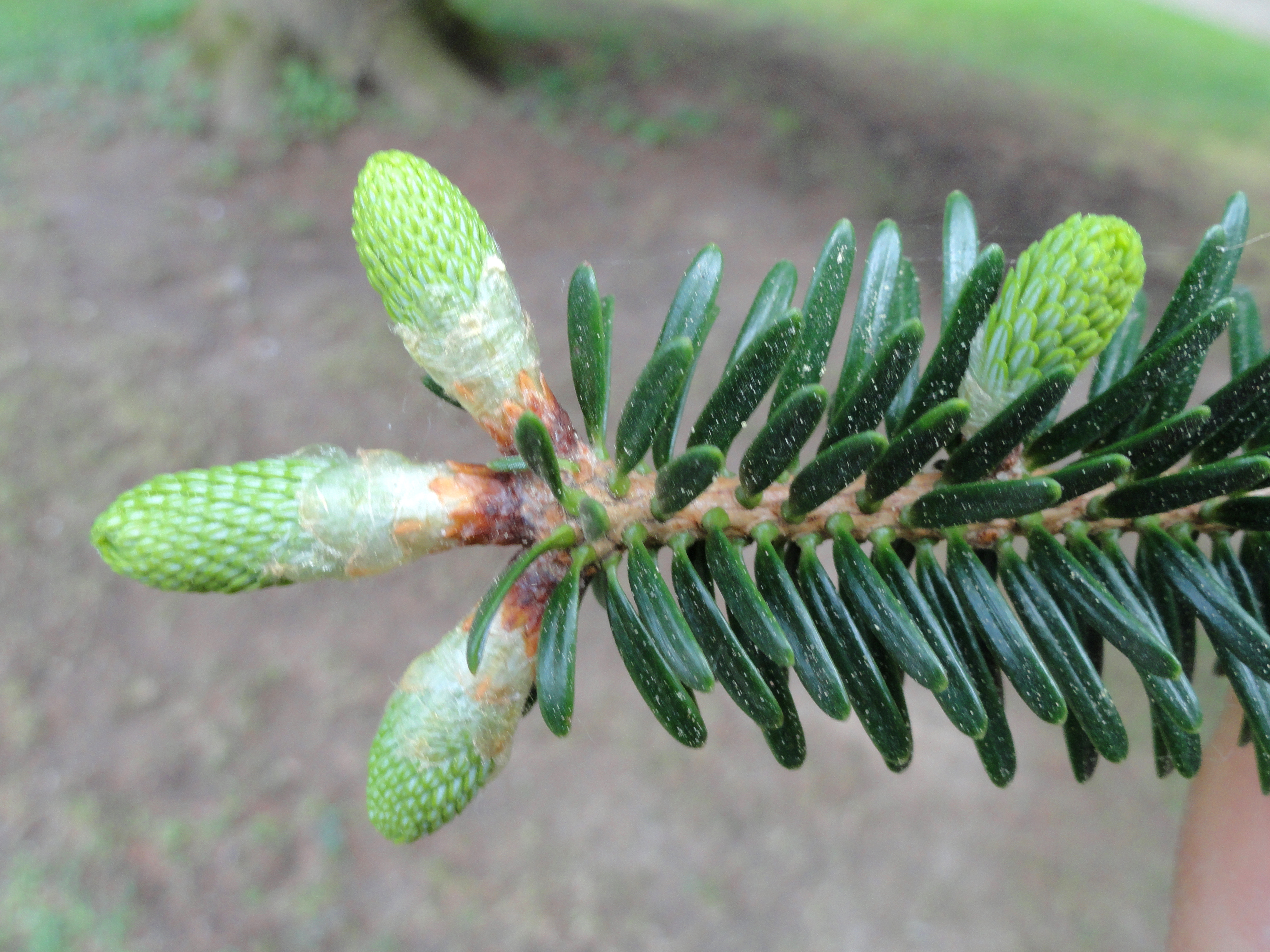 Abies chensiensis specimen in the Botanischer Garten Freiburg, Freiburg im Breisgau, Baden-Württemberg, Germany.